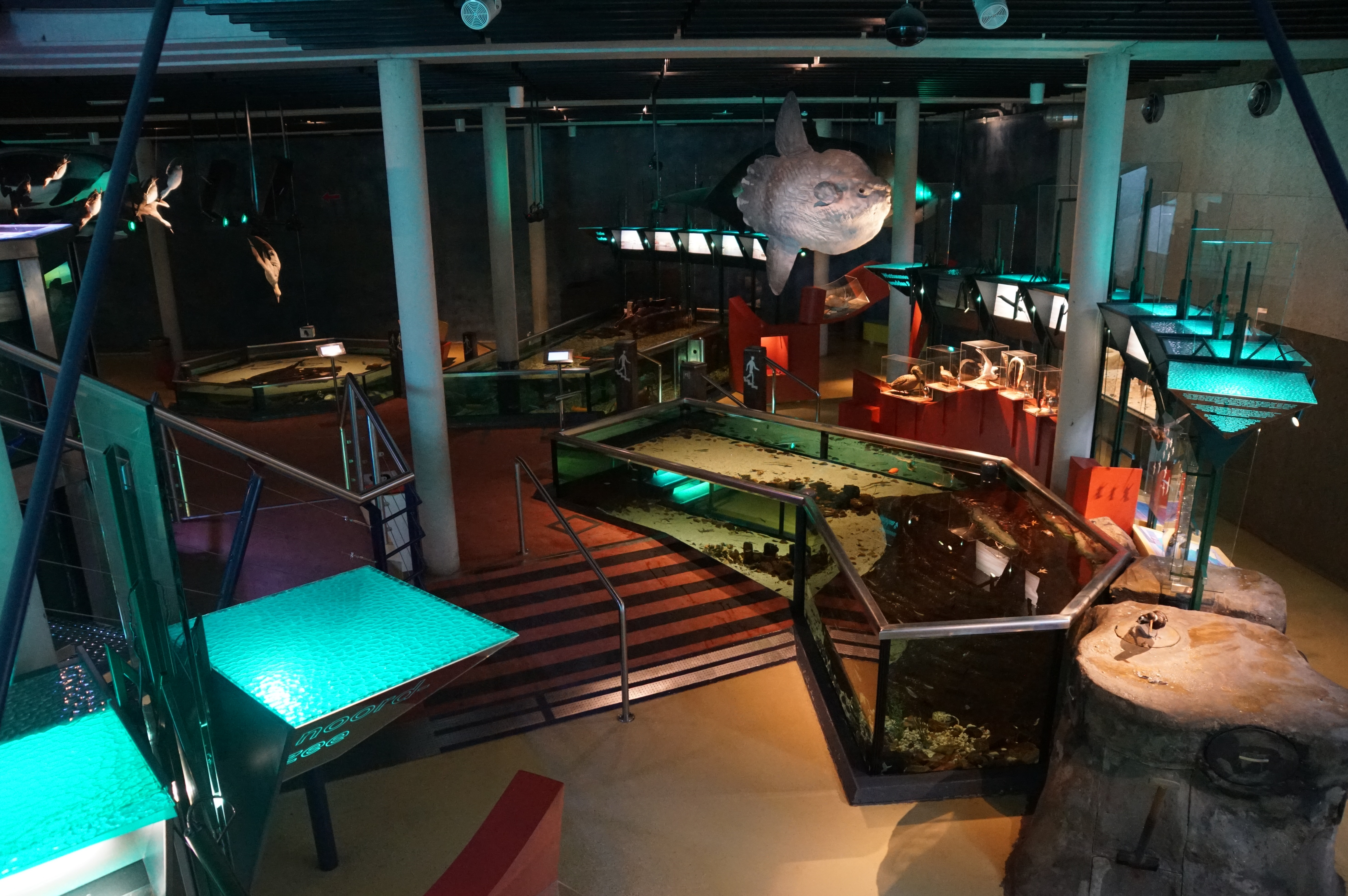 Ecomare, Texel, The Netherlands. Aquariums.